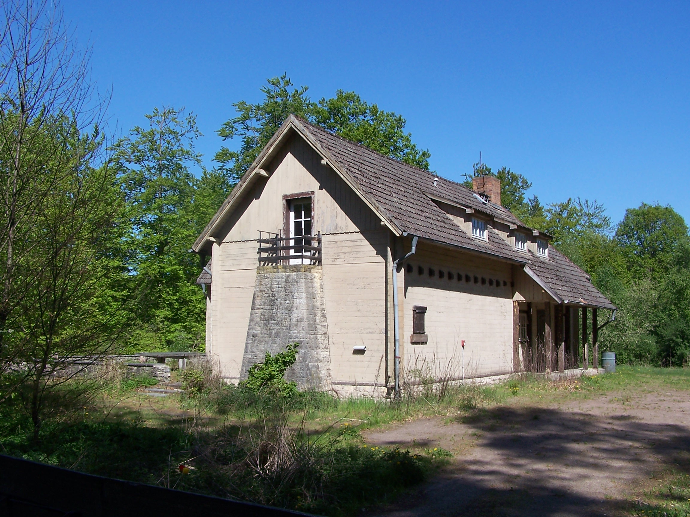 The first House of Joseph Goebbels at the Bogensee, 2011